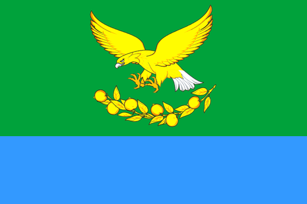 Flag of Slavyansky rayon, Krasnodar Territory, Russia